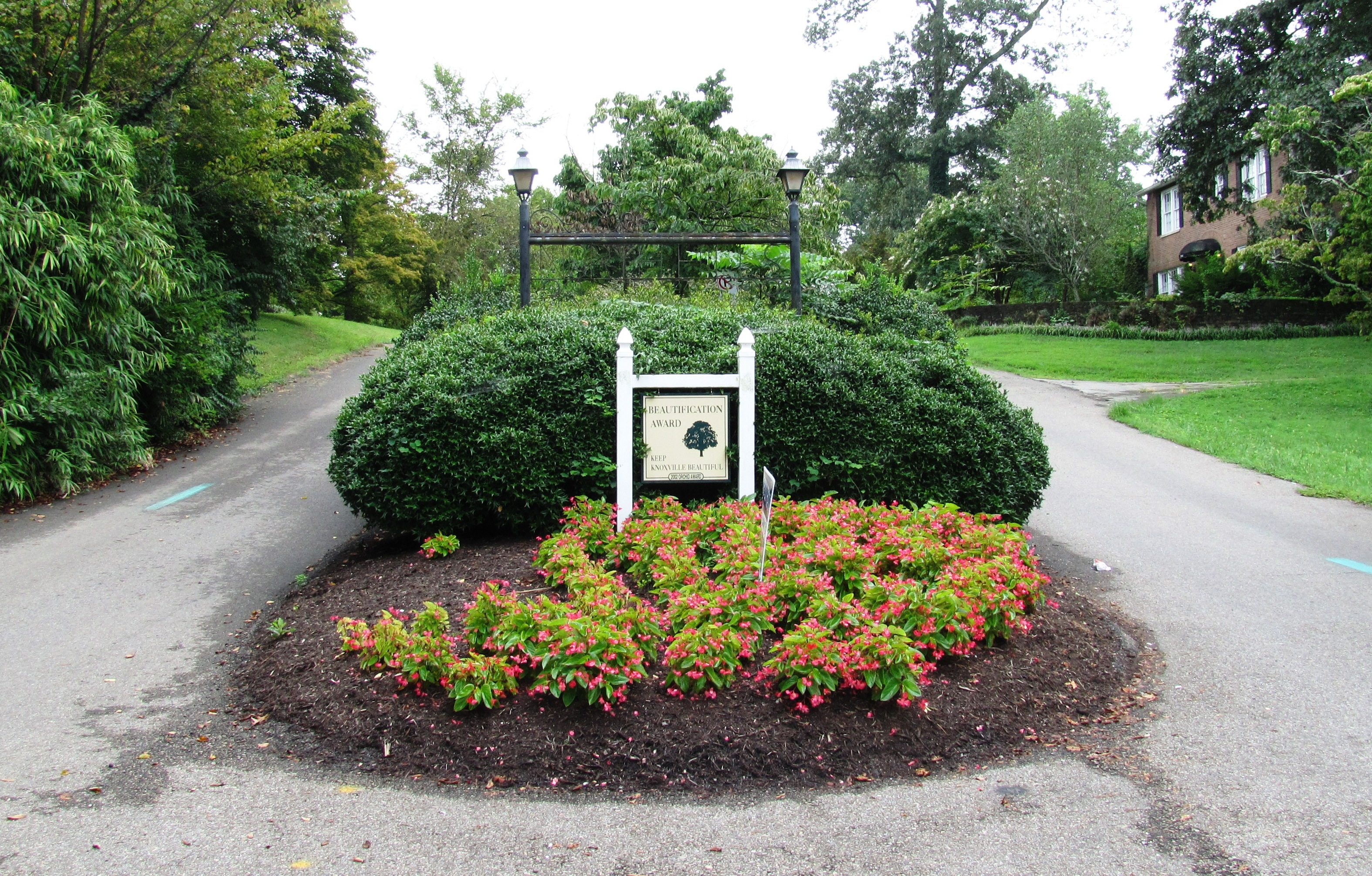 Entrance to the North Hills subdivision along North Hills Boulevard in Knoxville, Tennessee, USA. The iron lettering (difficult to discern due to the backdrop) reads "North Hills."